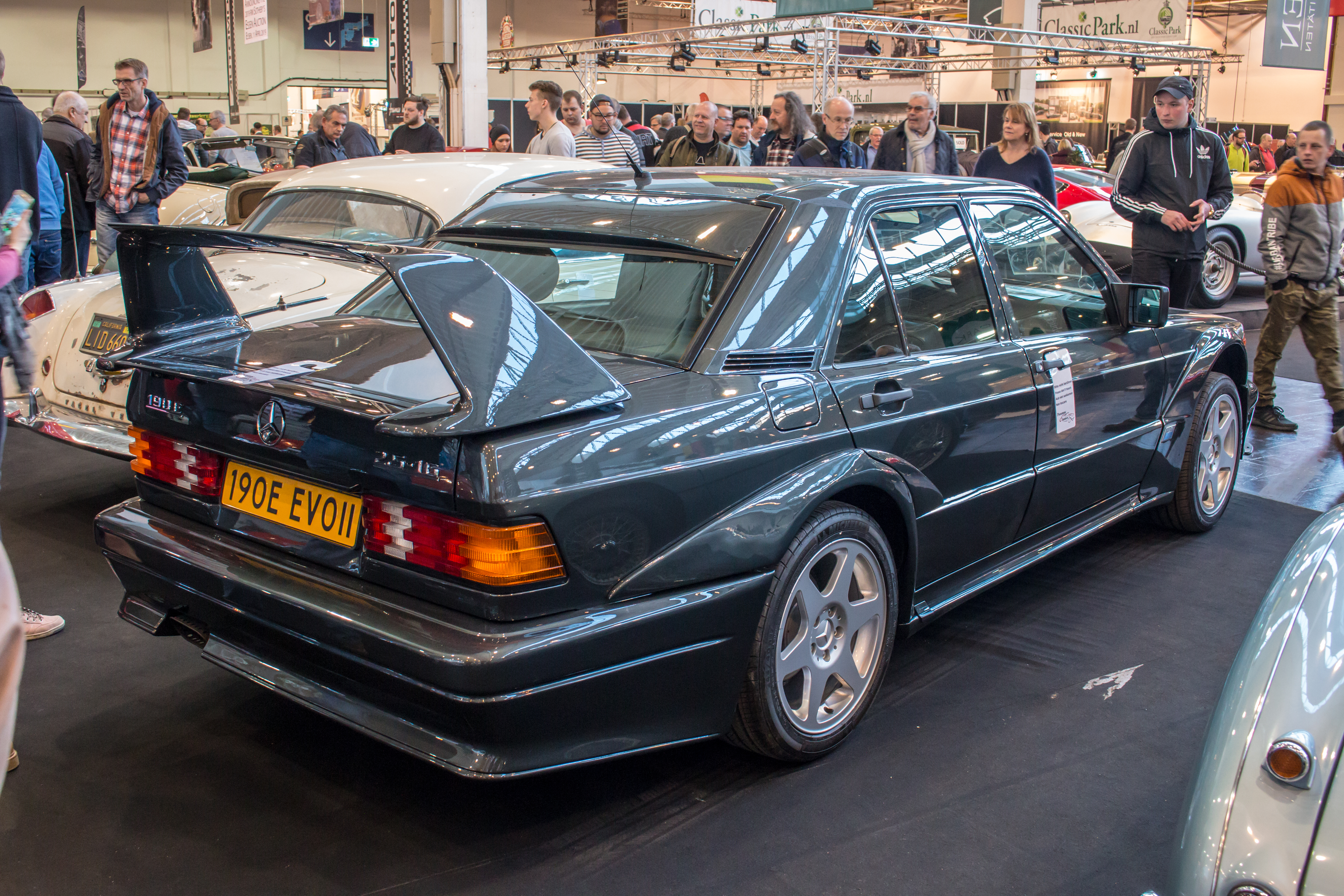 Mercedes-Benz, Techno-Classica 2018, Essen